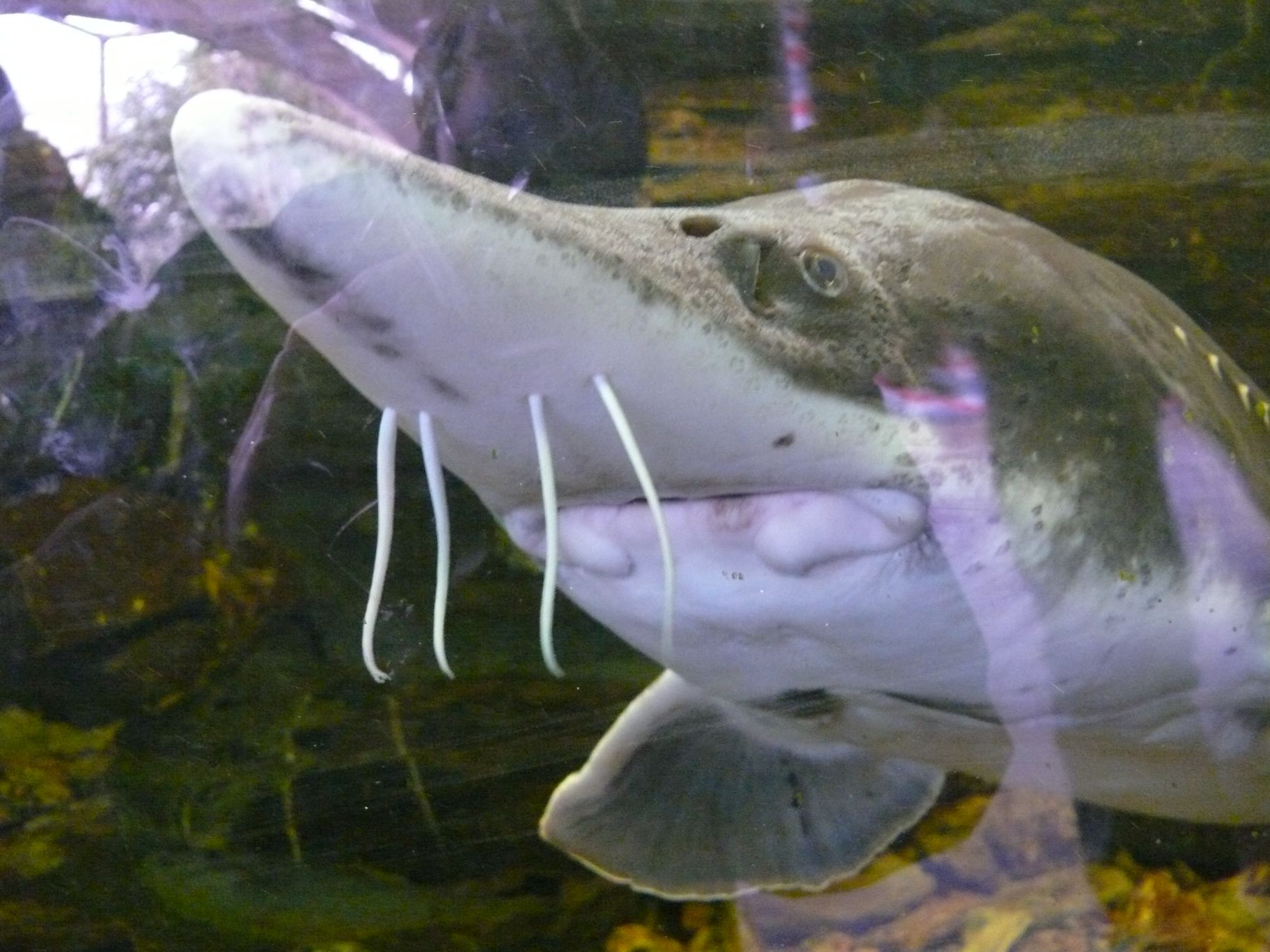 Acipenser sinensis in Shanghai zoo (China).